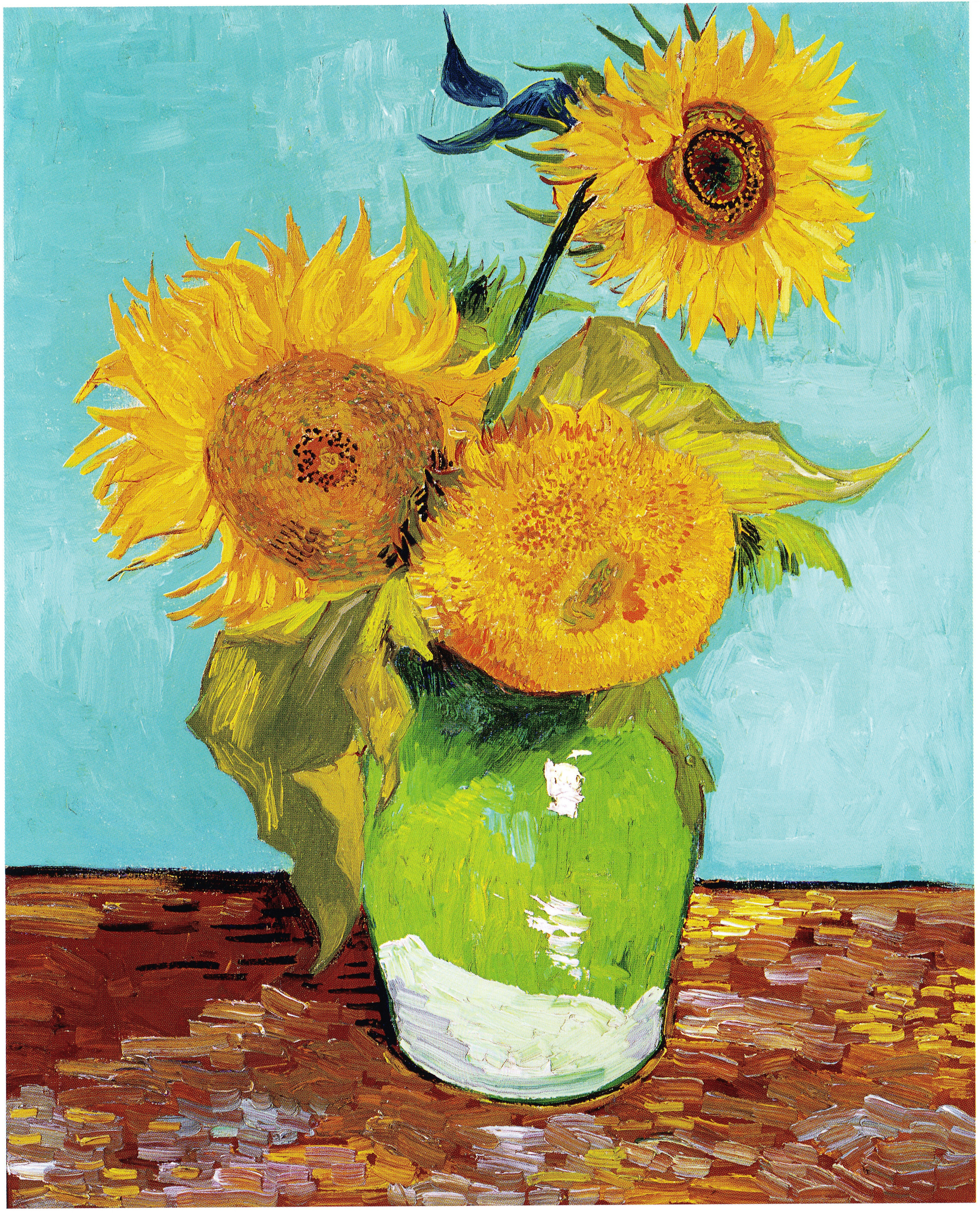 This is the mysterious so-called "Lausanne" Sunflowers. It was purchased by an unidentified private collector from a New York dealer in 1996 for an undisclosed sum. The last time it was exhibited was in 1948 when the Cleveland had it for a month. Previously it had been exhibited three times for a total of just six weeks in Paris. Since the 1948 exhibition its movements have been shrouded in mystery and few people have seen it in recent years. The painting is said to be in excellent condition. This image, from Martin Bailey's 2013 book, is likely the best image available, Bailey doesn't give a picture credit.